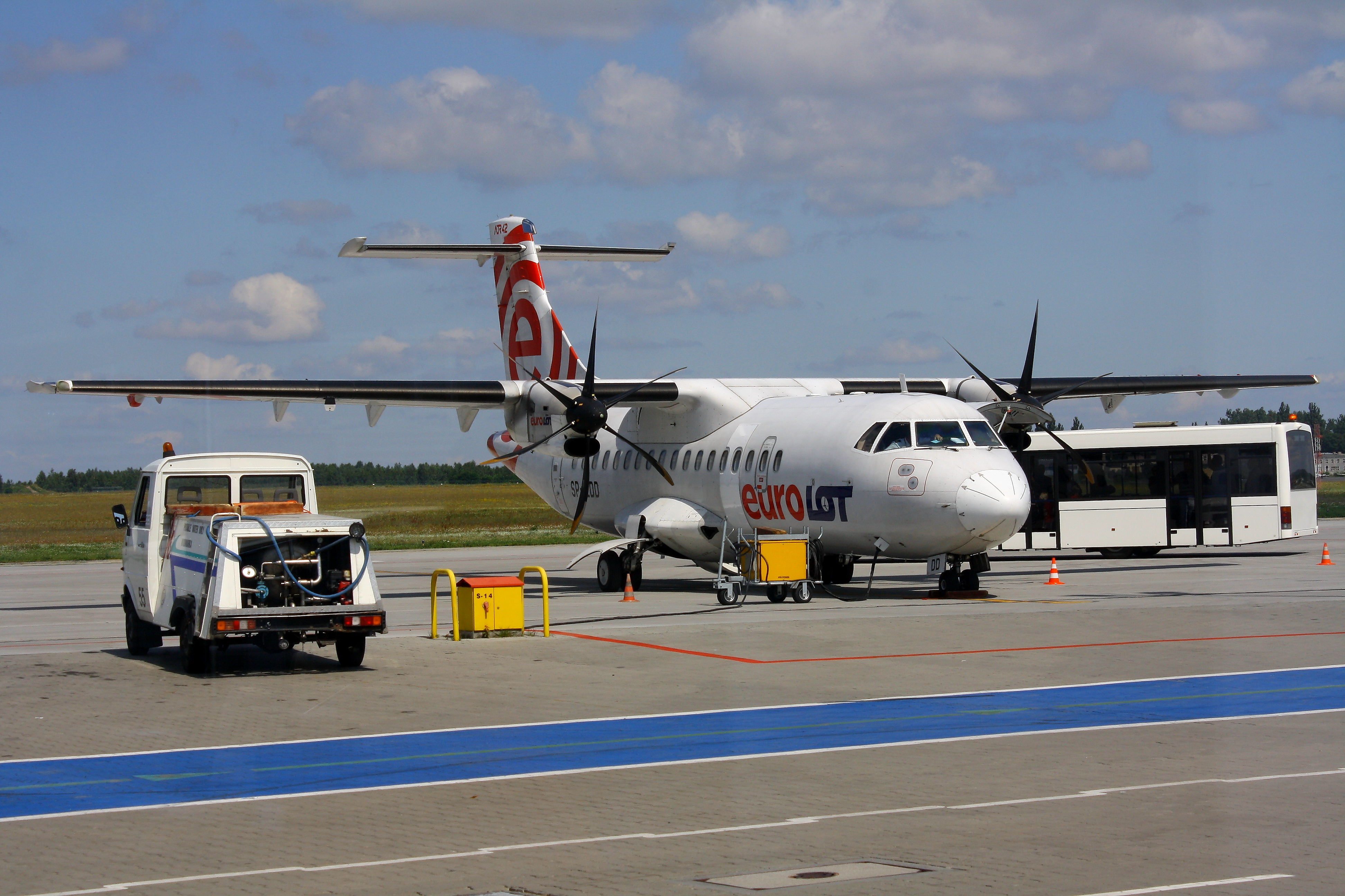 EuroLOT ATR 42-500 (SP-EDD) at Poznan Airport, Poland.